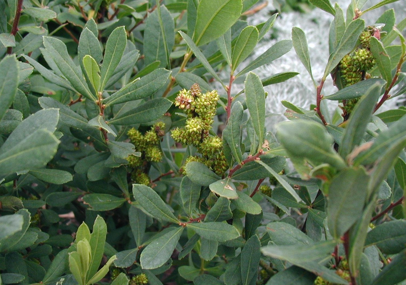 Myrica gale: Female plant with foliage and fruits. This version replaces an older one with a watermark.